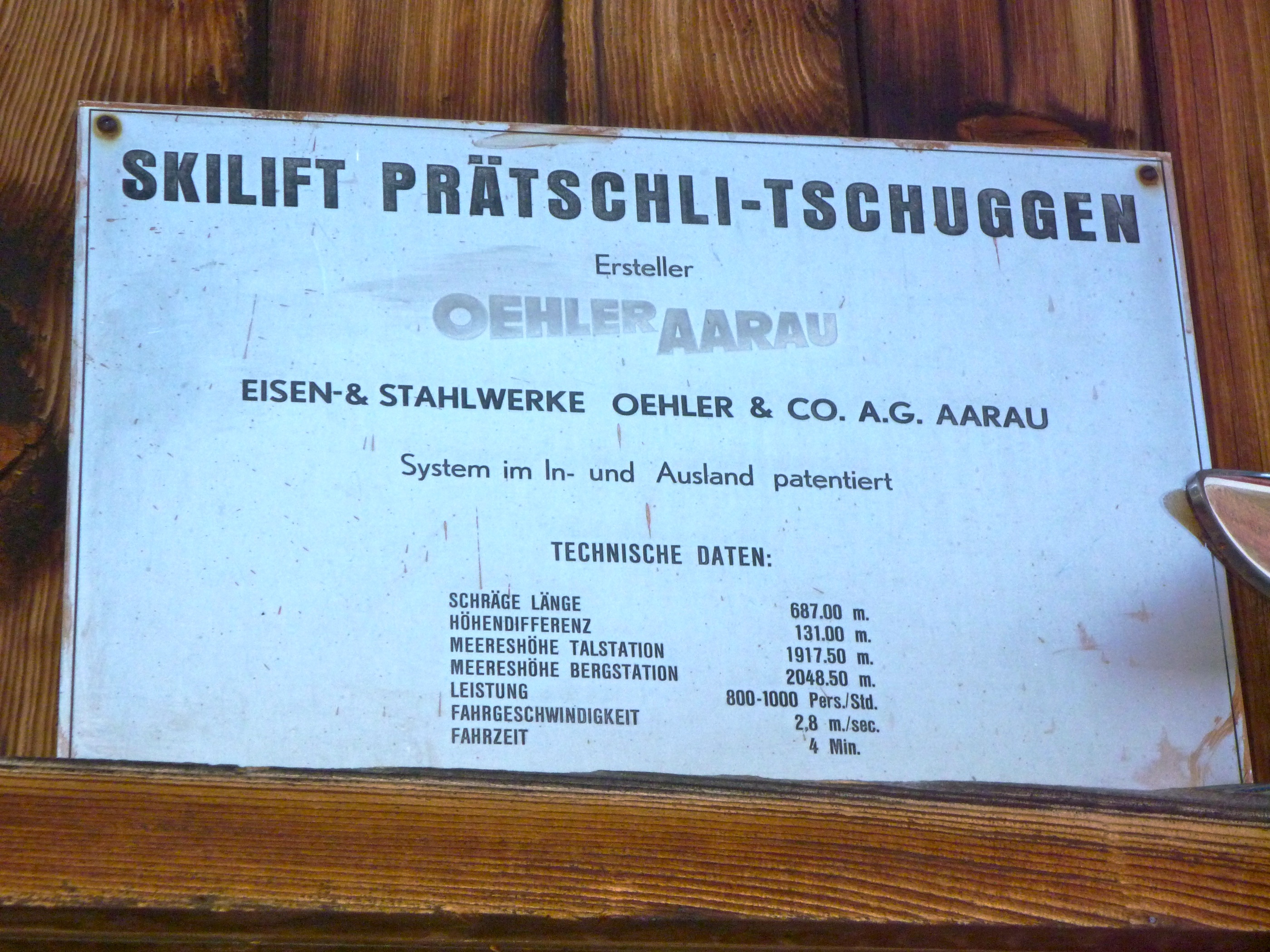 original producer's board of Ski-lift Prätschli, Arosa/Switzerland (now Ski-lift Tomeli)